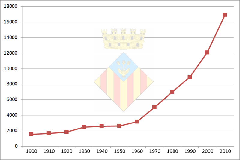 Cardedeu's population (1900-2010).